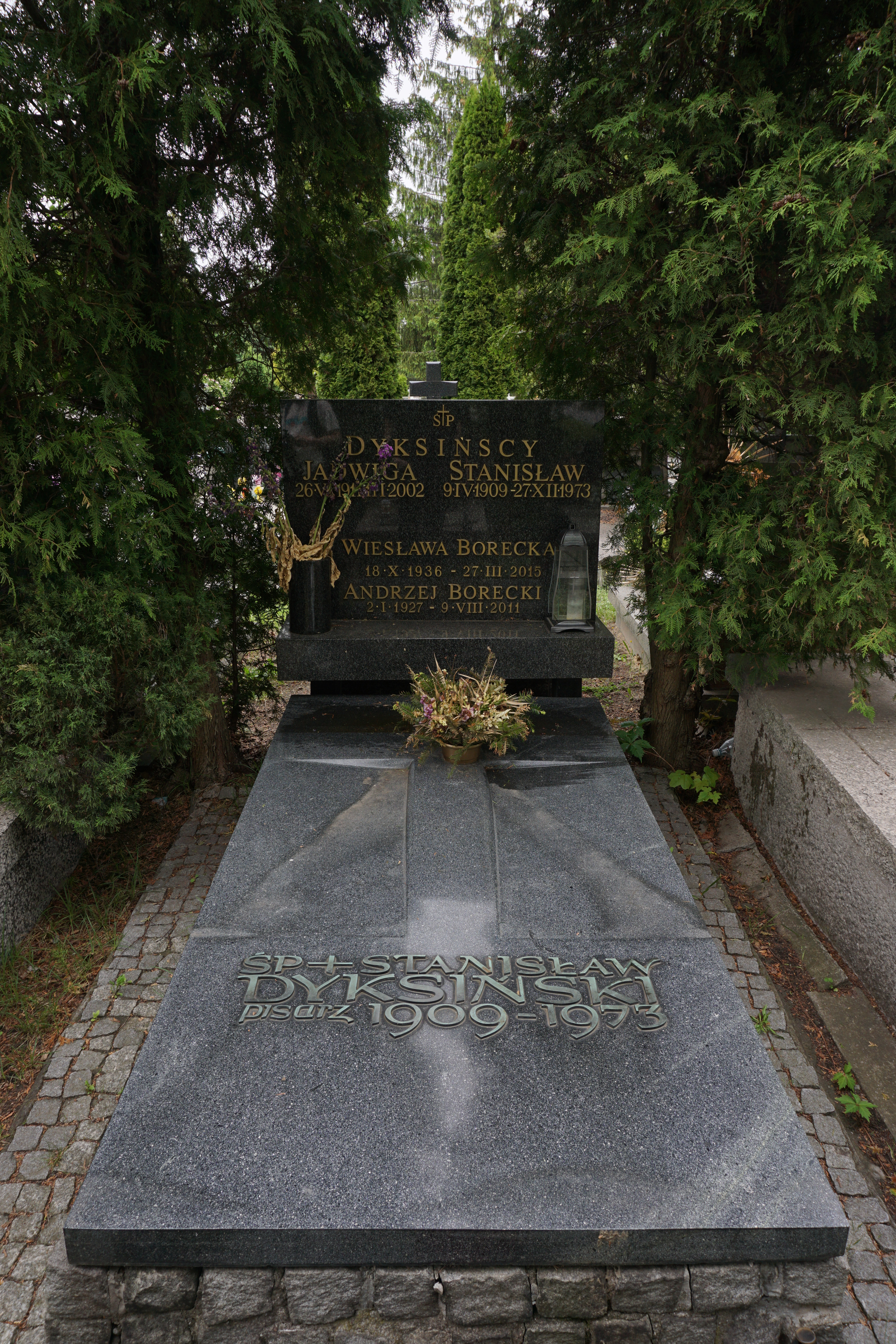 The grave of Andrzej Borecki at the North Municipal Cemetery in Warsaw (section E-III-6, row 8, grave 4)